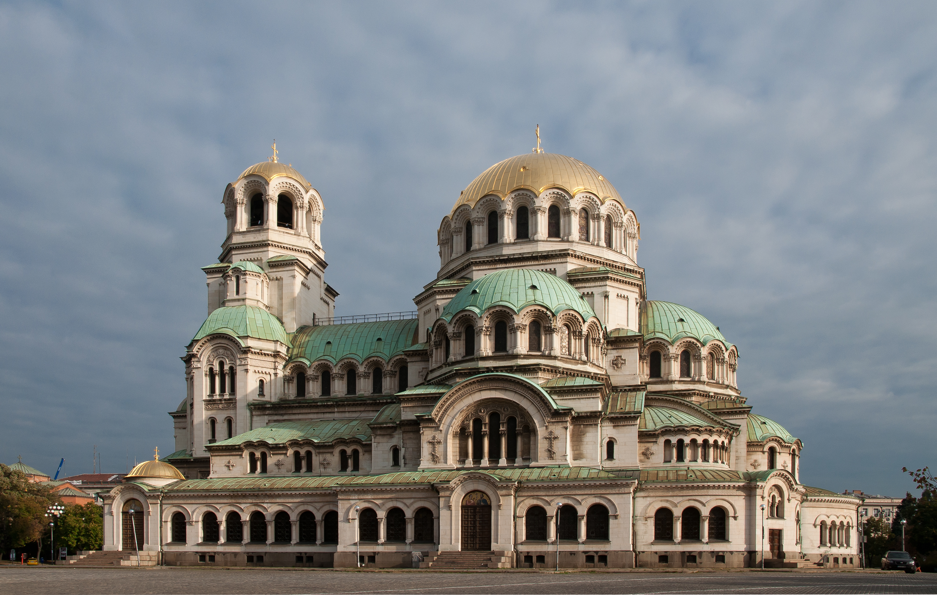 Alexander Nevsky Cathedral in Sofia, Bulgaria. Its foundation stone was laid on March 3, 1882, four years after signing the Treaty of San Stefano, granting the Liberation of Bulgaria.